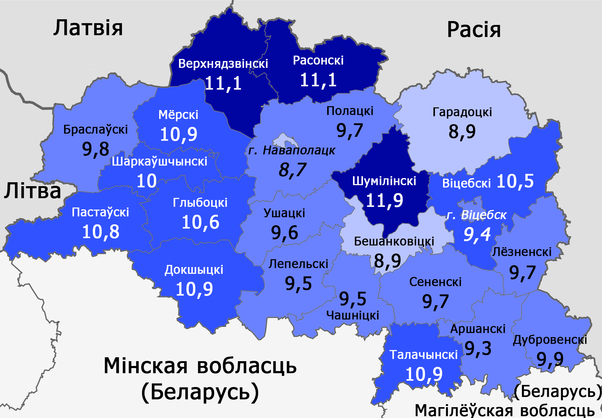 Birth rate in Viciebskaja voblasć, Belarus